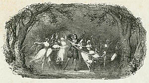 Titelvignet fra klavernoderne til balletten Et Folkesagn (1854)